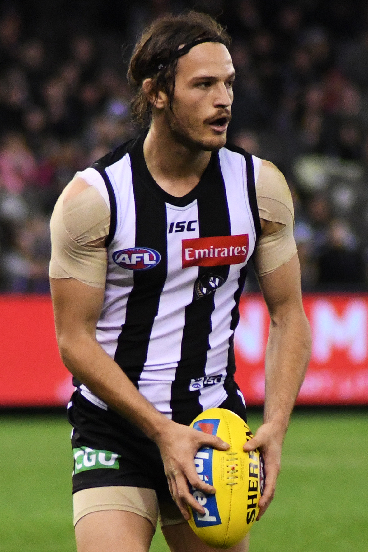 James Aish of Collingwood during the 2018 AFL round 21 match between Collingwood and Brisbane at Etihad Stadium on Saturday, 11 August 2018 in Melbourne, Victoria.